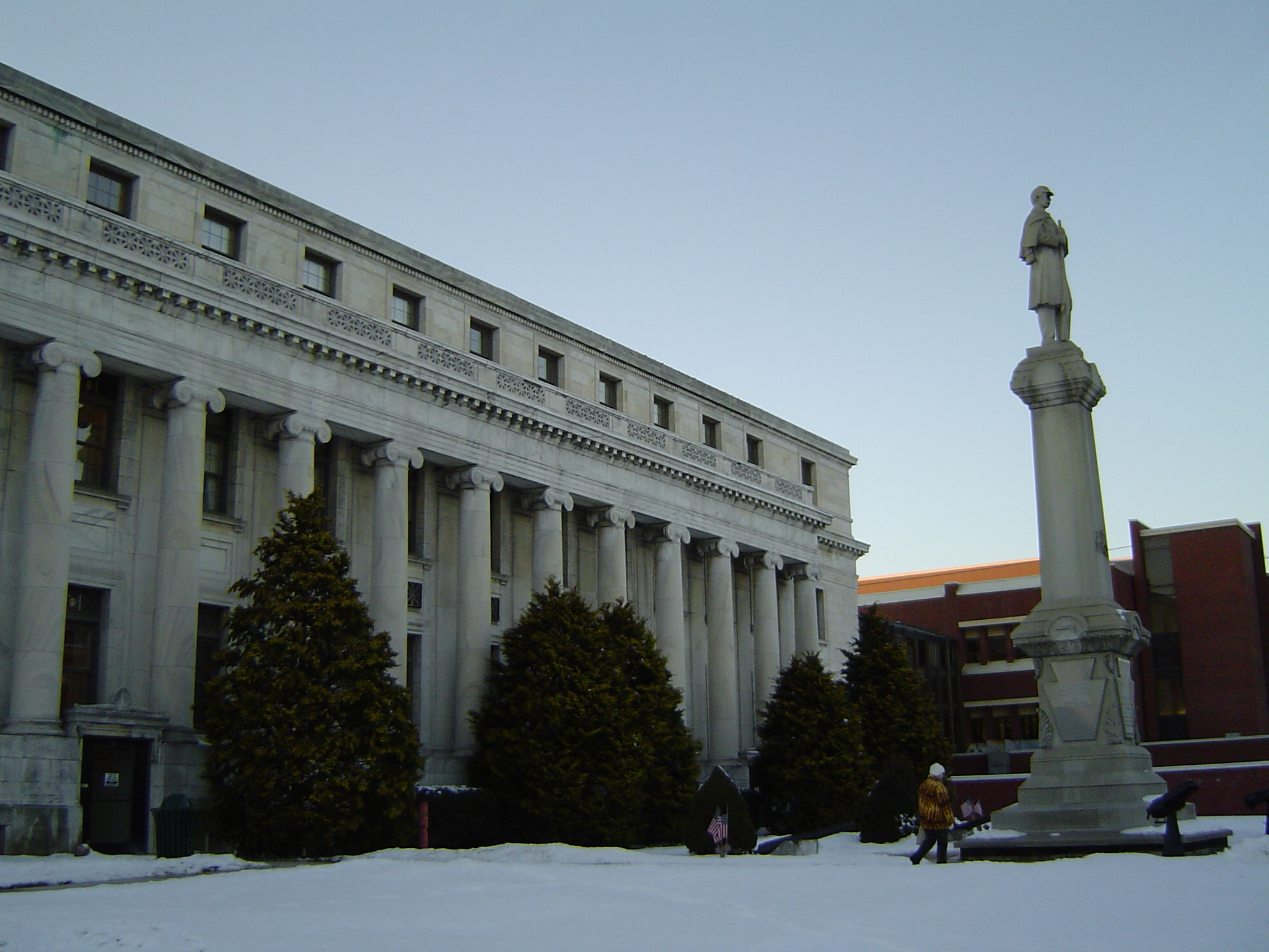 Photo of the Delaware County Courthouse in Media, PA. Note statue of Union soldier to the right.